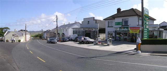 Ballyliffin, County Donegal Looking north-east along the main street